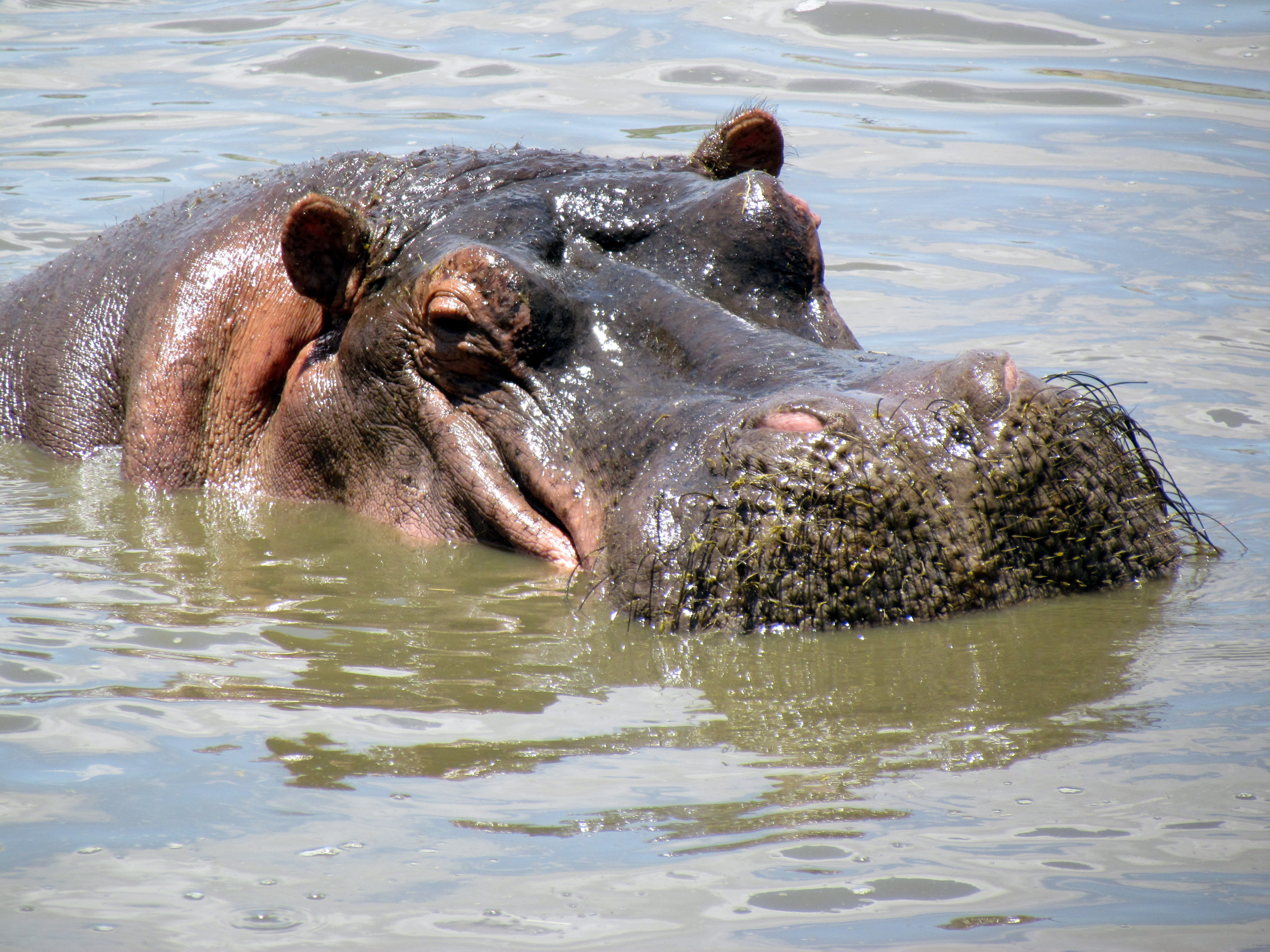 Hippopotamus amphibius at Serengeti National Park - Tanzania, Africa